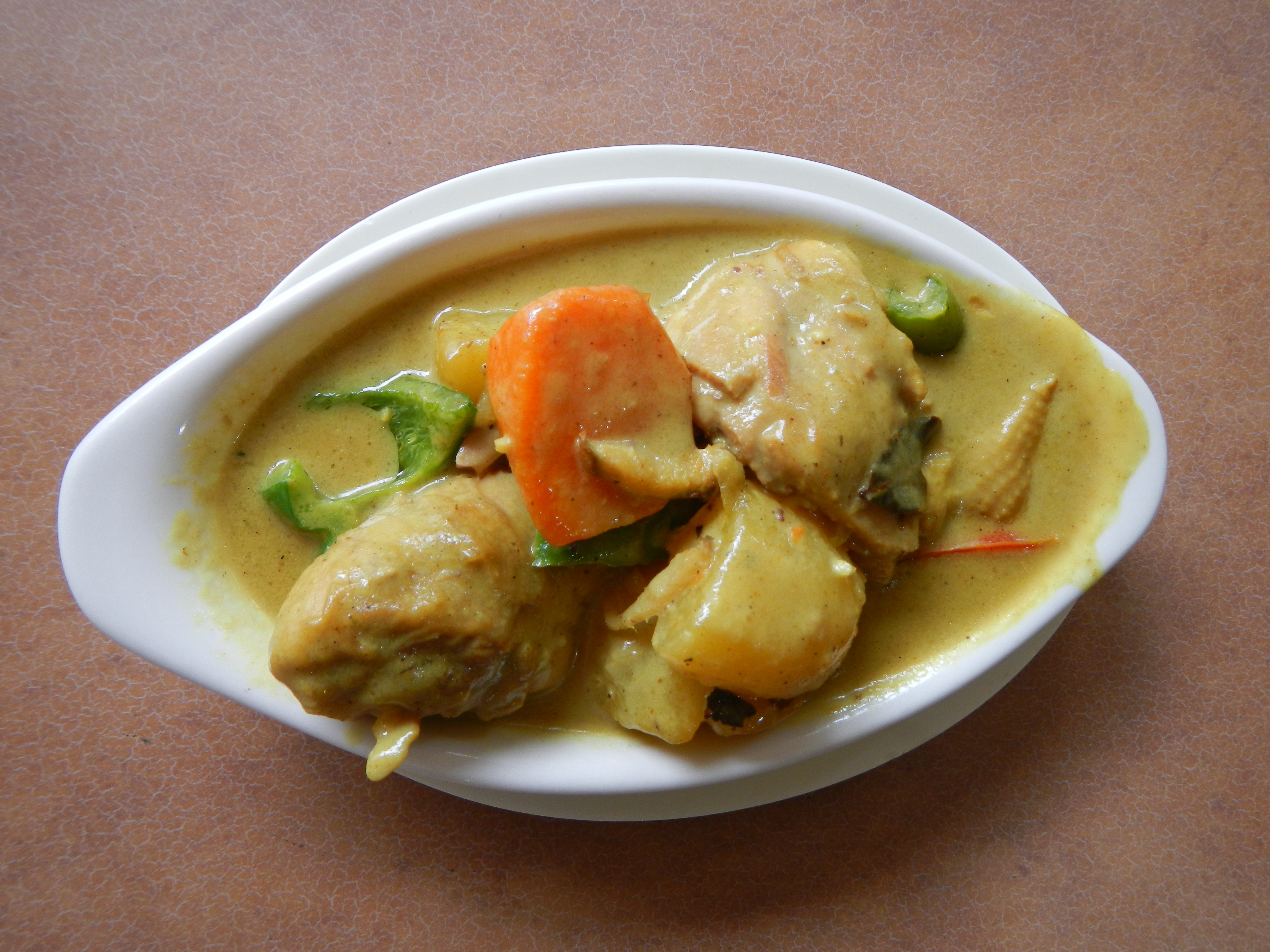 Chicken curry (La Familia, Baliuag, Bulacan, Philippines)[1]